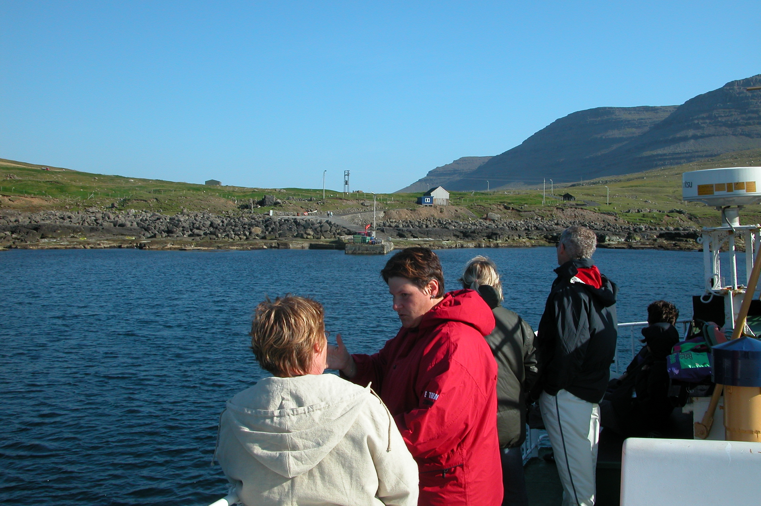 Postboat Másin landing in Svínoy, Faroe Islands.